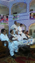 Politicians in Kunri